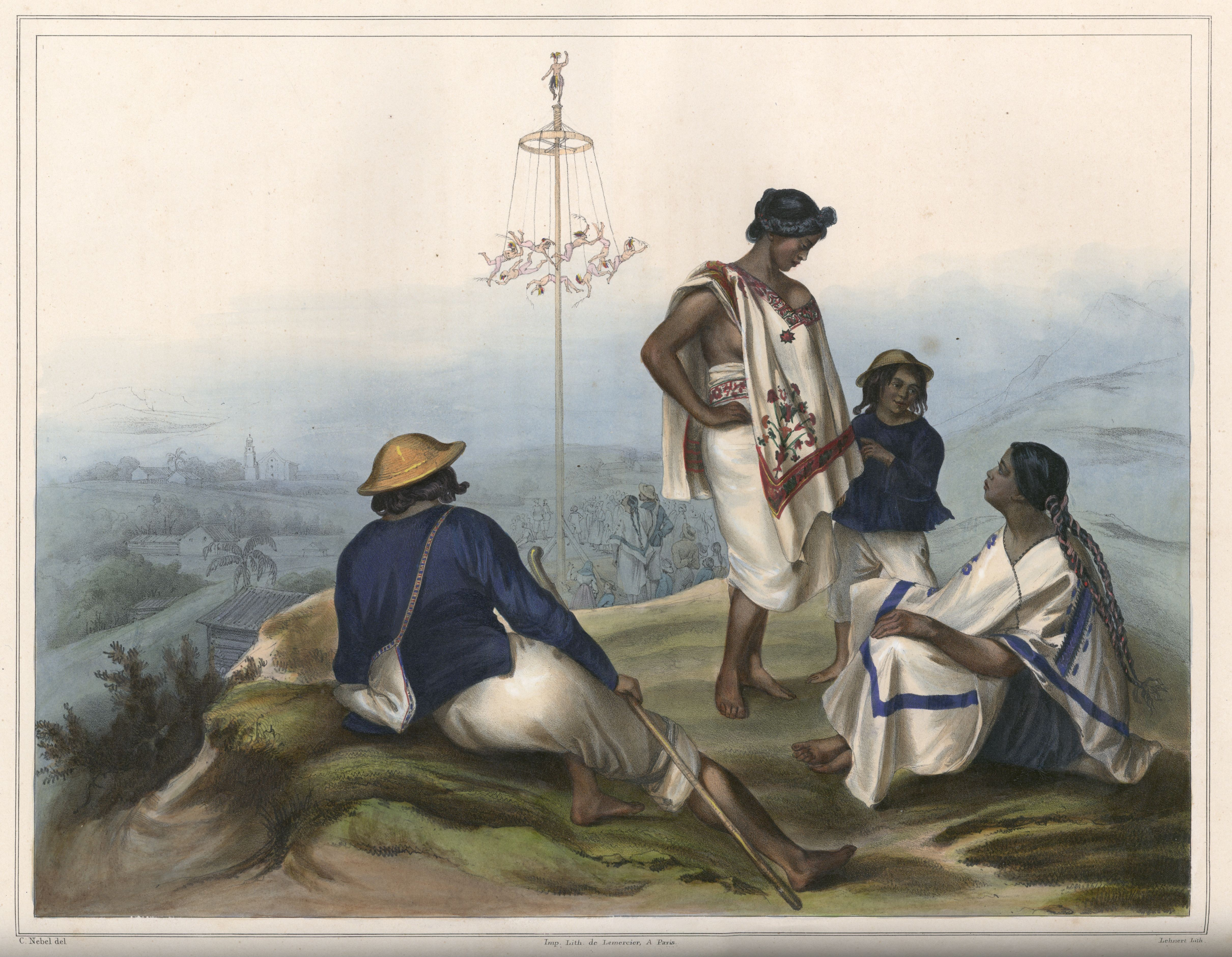 Indios de la Cierra de Guauchinango. Hand-colored lithograph highlighted with gum arabic. Original size (neat lines): 39.6×30.6 cm.